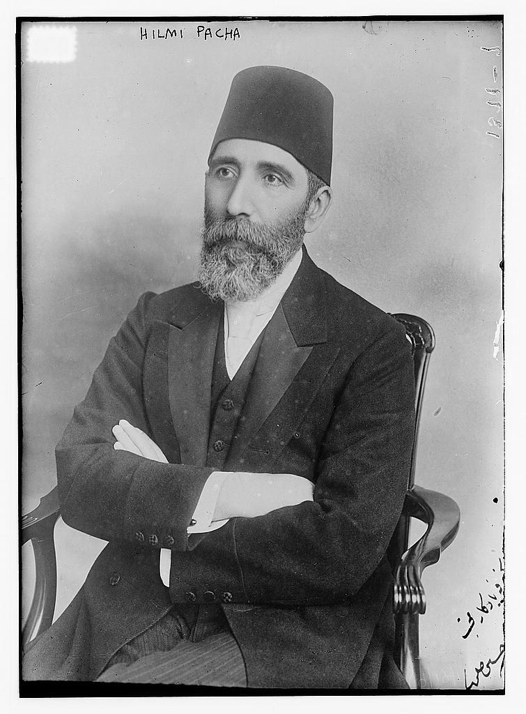 Hüseyin Hilmi Pasha (Ottoman Turkish: حسین حلمی پاشا, also spelled Hussein Hilmi Pasha) (1855 – 1922/1923) was a statesman and twice Grand vizier of the Ottoman Empire.